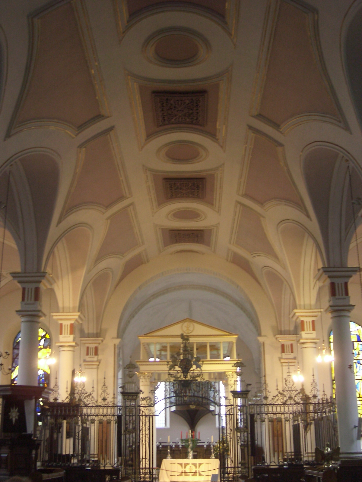 Nave of Derby Cathedral